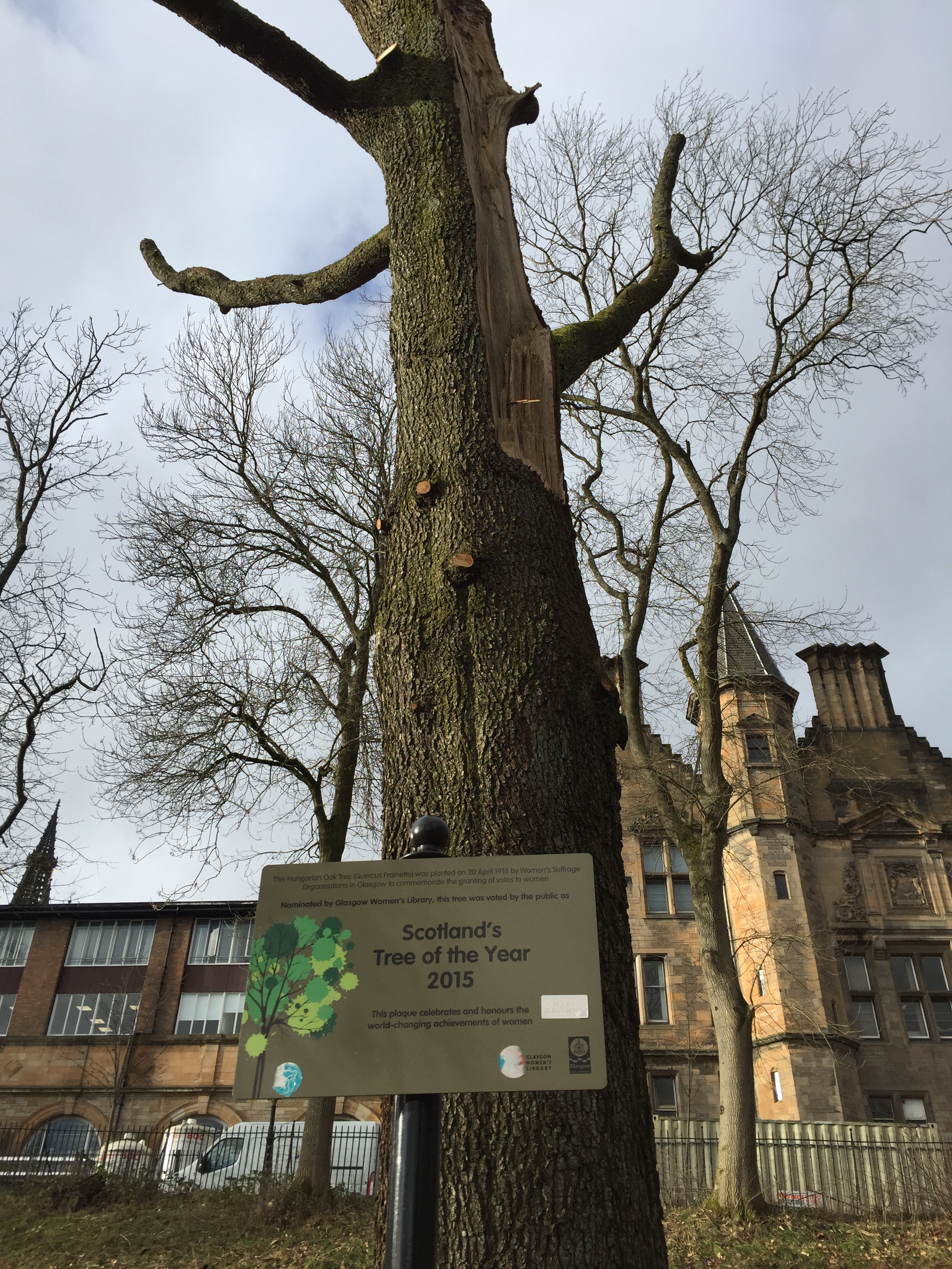 The Suffragette Oak, in Glasgow, Scotland.